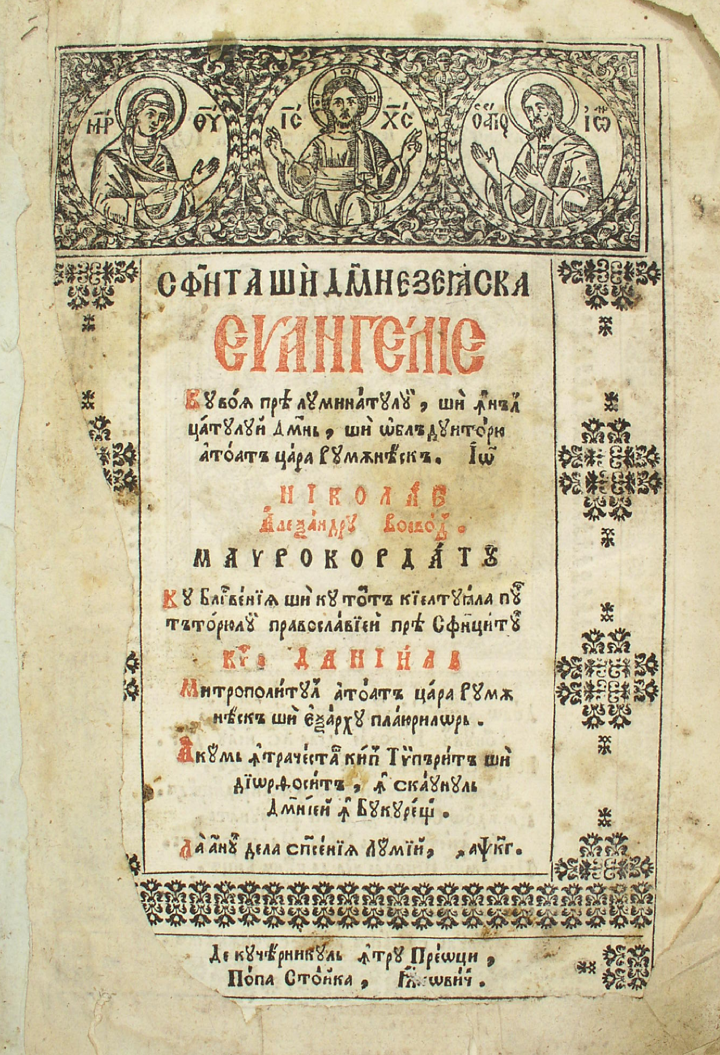 "Holy and Godly Gospel Book", title page. Printed in Bucharest in 1723 during the reign of Nicolae Mavrocordat, in Romanian with Cyrillic characters. See also: Page #2 of the book. This is a photo of a historic monument in București, classified with number B-II-a-A-19464 TranscriptionTransliterationСФ҃НТА ШЍ ДМ҃НЄЗЄꙖ́СКА ЄѴАНГЄ́ΛІЄ КȢ вóѧ прѣ ʌȢмина́тȢʌȢ̏, шѝ ꙟ҆нъʌ҆ца́тȢʌȢй Дм҃нь, шѝ ѡ҆бʌъдȢитóрю а҆тóатъ ца́ра РȢмѫнѣ́скъ. І́ѡ҃ НЇКОΛА́Є А҆ʌєѯа́ндрȢ ВoєвóдȢ. МАѴРОКОРДА́ТꙊ̆ КȢ Бʌг҃вє́нїѧ шѝ кȢ тóатъ кїєʌтȢꙗ́ʌа пȢртътóрюʌȢ̏ правoсʌа́вїєй прѣ Сфн҃ци́тȢʌ КȢ҃в. ДАНІЙАΛ Митрoпoʌи́тȢʌȢ а҆тóатъ ца́ра РȢмѫнѣ́скъ шѝ є҆ѯа́рꭓȢ пʌа́юриʌѡрь. АкȢ́мь ꙟ҆трачє́стӓ҄ ки́пȢ Тѷпъри́тъ шѝ дїѡрѳoси́тъ, ꙟ҆ ска́ȢнȢʌь Дм҃нíєй ꙟ҆ БȢкȢрє́щ҆. Λа̀ ãнȢʌ дєʌа сп҃сє́нїѧ ΛȢ́мїй, ҂аѱк҃г. Дє кȢчѣ́рникȢʌь ꙟ҆трȢ Прє́ѡци, Пóпа Стóйка, Ꙗ҆кѡви́ч҆.SFÂNTA ȘI DUMNEZEIASCA EVANGHELIE Cu voia prea luminatuluĭ, și înălțatuluĭ Domn', și oblăduitoriu atoată țara Rumânească. Io NÏCOLAE Alexandru Voevodŭ. MAVROCORDATŬ Cu Blagoslovenïa și cu toată chïeltuiala purtătoriuluĭ pravoslavïeĭ prea Sfințitul Cuv. DANIĬAL Mitropolitulŭ atoată țara Rumânească și exarhu plaiurilor'. Acum' întracesta chipŭ Tipărită și dïorthosită, în scaunul' Domnieĭ în Bucureștĭ. La anul dela spăsenїa Lumїĭ, 1723. De cucearnicul' întru Preoți, Popa Stoĭca, Iacovicĭ.TranslationTHE HOLY AND GODLY GOSPEL By the will of the enlightened, and glorified Lord, and shielder of the entire Wallachia. Sir NICHOLAS Alexander Voivode MAVROCORDATOS Under the blessing and through the expense of the guide to Orthodoxy, the halowed Devout DANIEL Metropolitan of the entire Wallachia and exarch of the lands. Now printed and revised in the current form, at the seat of the court in Bucharest. In the year of the world's redemption, 1723. By the pious among prietts, Father Stoica, Iacovici.